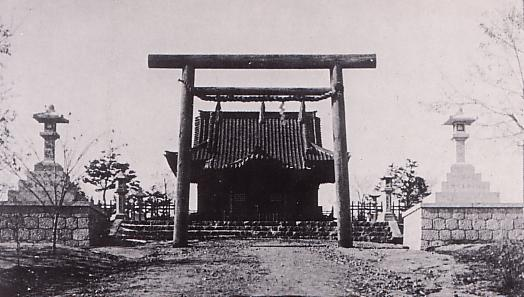 Ranan(Ranam) Shrine